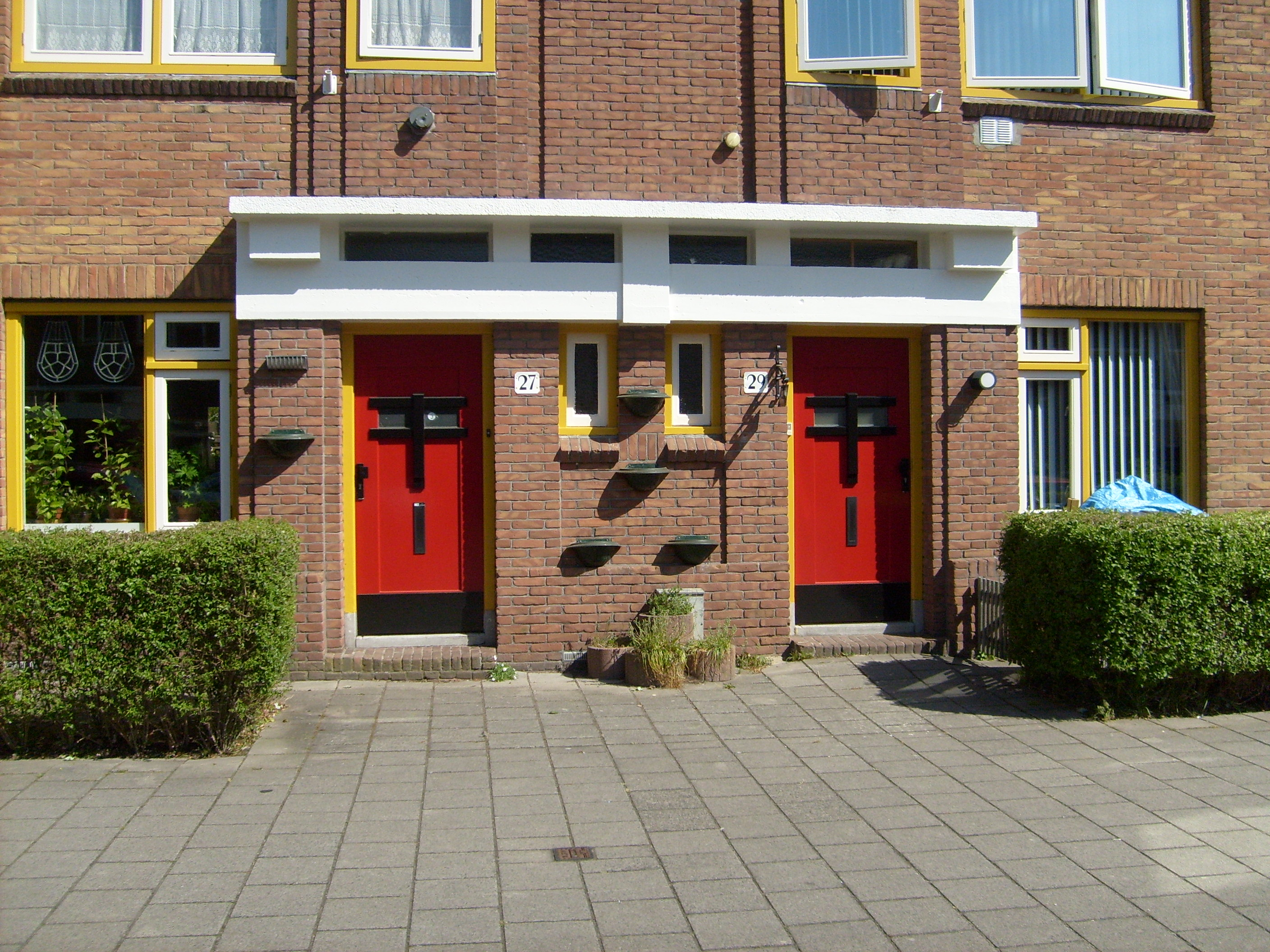 Nijlstraat in Haarlem, the Netherlands. Build in 1920. Architect: Han van Loghem